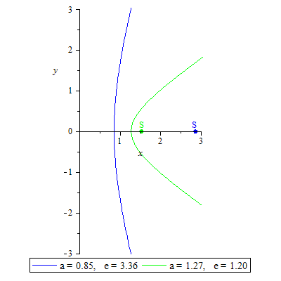 Hyperbolas, having the same parameters as the trajectory of 2I/Borisov (blue line, semi-major axis a=0.85 AU, eccentricity e=3.36) and 1I/ʻOumuamua (green line, semi-major axis a=1.27 AU, eccentricity e=1.20). Letters S and dots of corresponding colors denote foci of hyperbolas, which correspond to the position of the Sun for corresponding orbit. Painted in Maple.